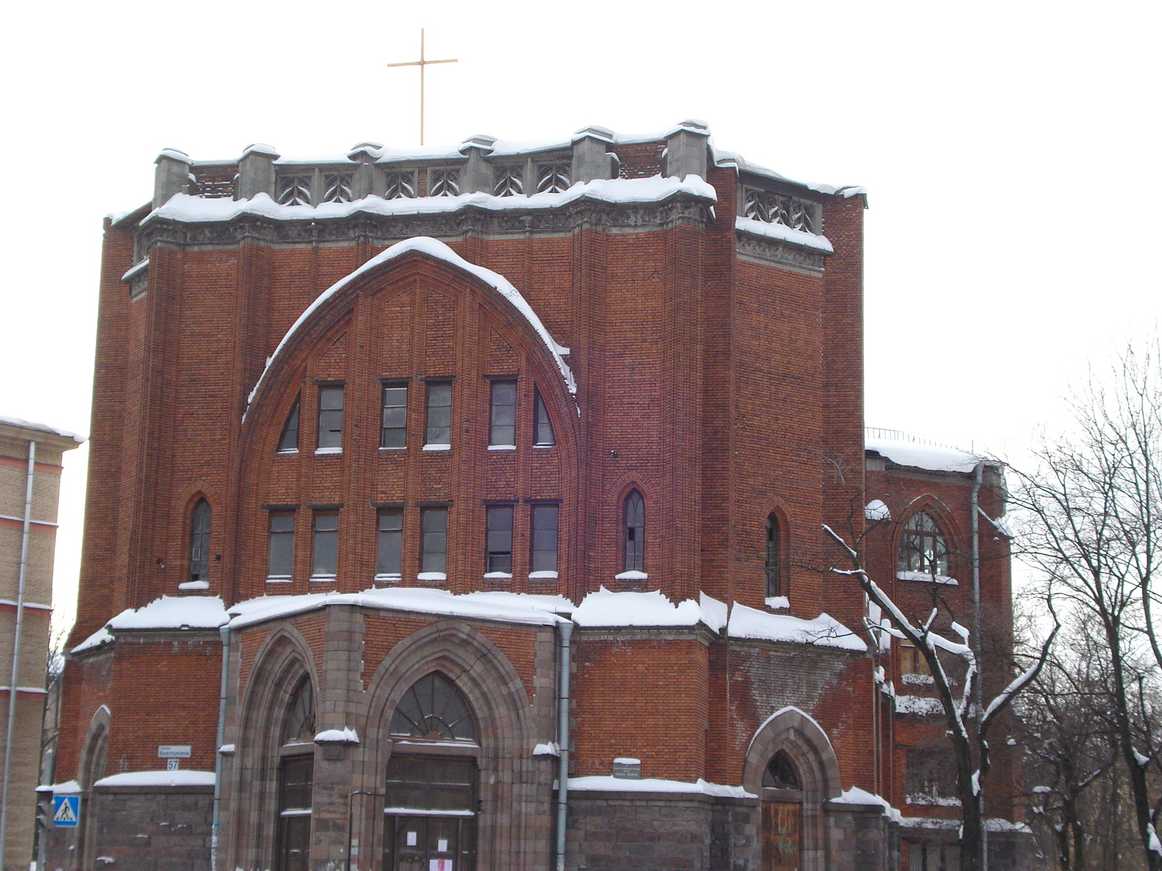 Saint Petersburg (Russia), Sacre Coeur Church